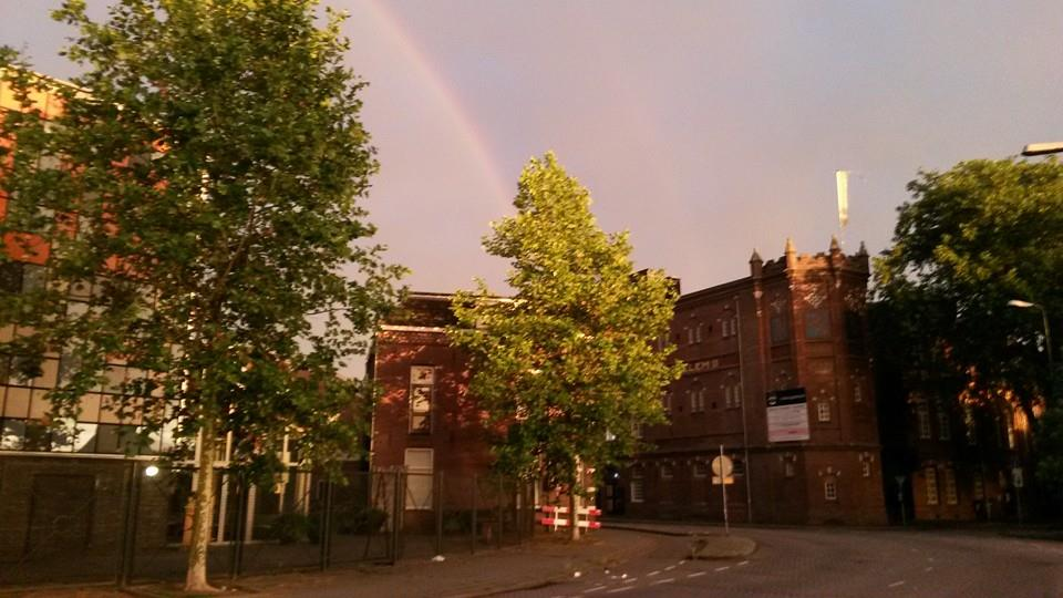 W2 Poppodium. Rainbow.